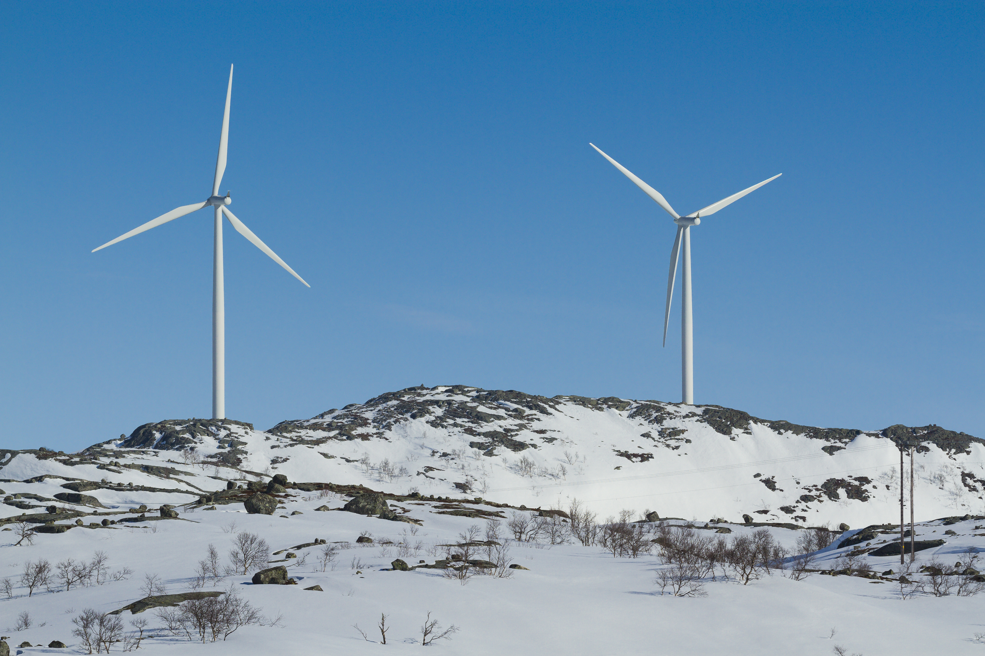 Wind turbines of Nygårdsfjellet windfarm as seen from the west in Narvik, Nordland, Norway in 2015 April.